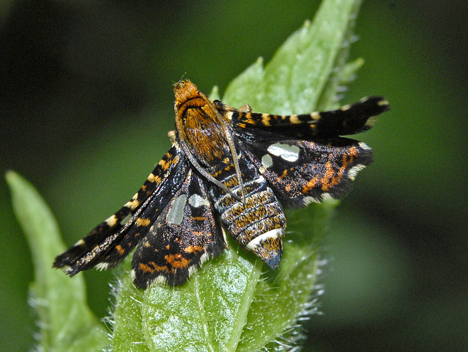 Thyris fenestrella. Piani di Praglia, Genova, Italy